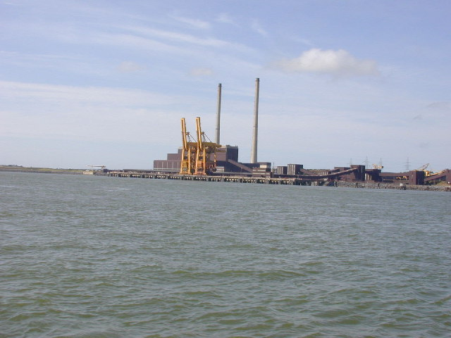 ESB Moneypoint Generating Station. Coal fired power station located at Moneypoint, Killimer, Kilrush, Co. Clare